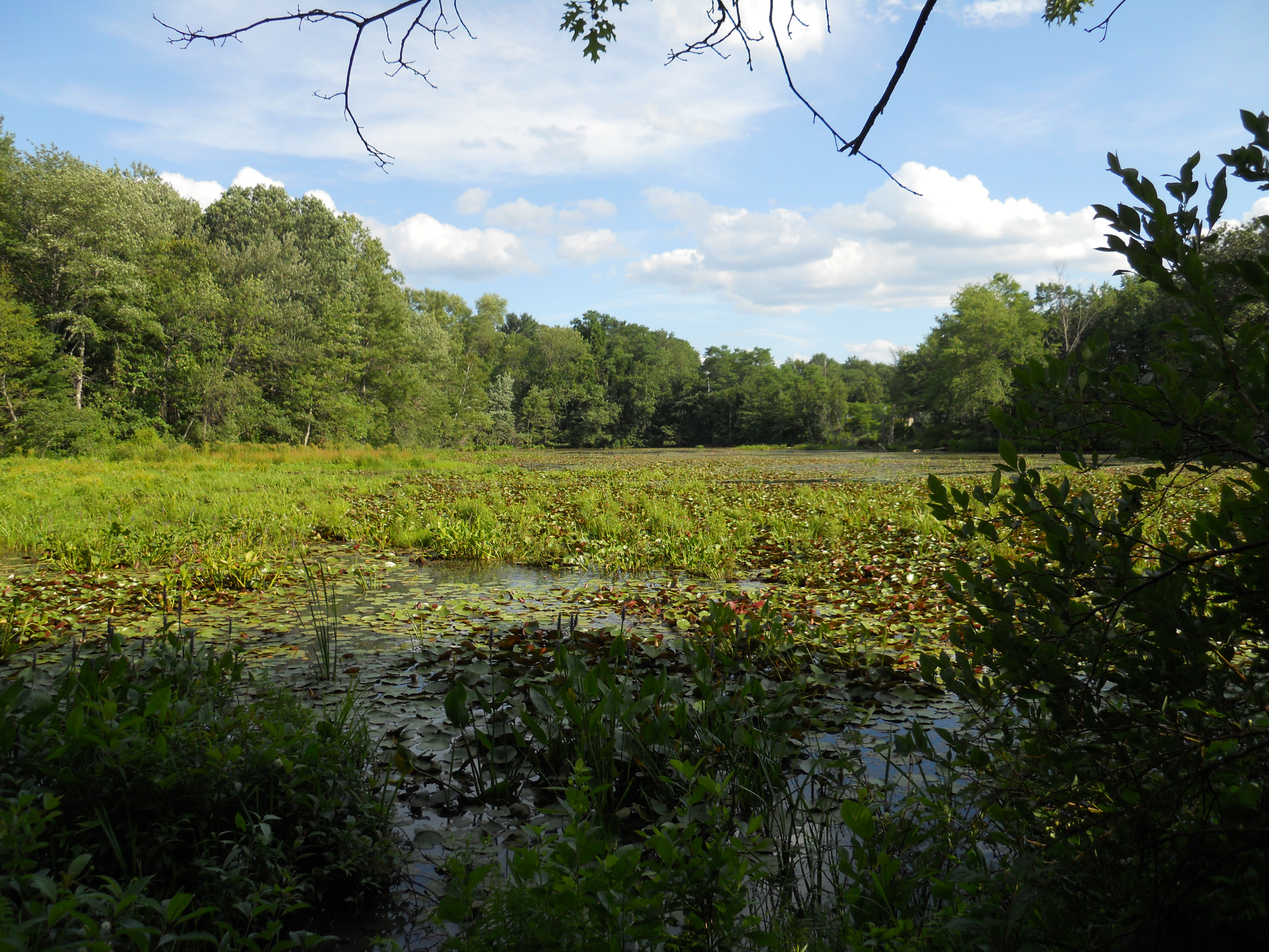 The lower Artichoke River, the border between Newburyport and West Newbury. This isolated stretch between the reservoir and the Merrimack is rich in wildlife. Eagles customarily feed here. View from the swamp on the right bank below Curzon Mill Road. The river is named from the "Jerusalem Artichoke", a sunflower featuring tubers consumed by Indians and colonials.